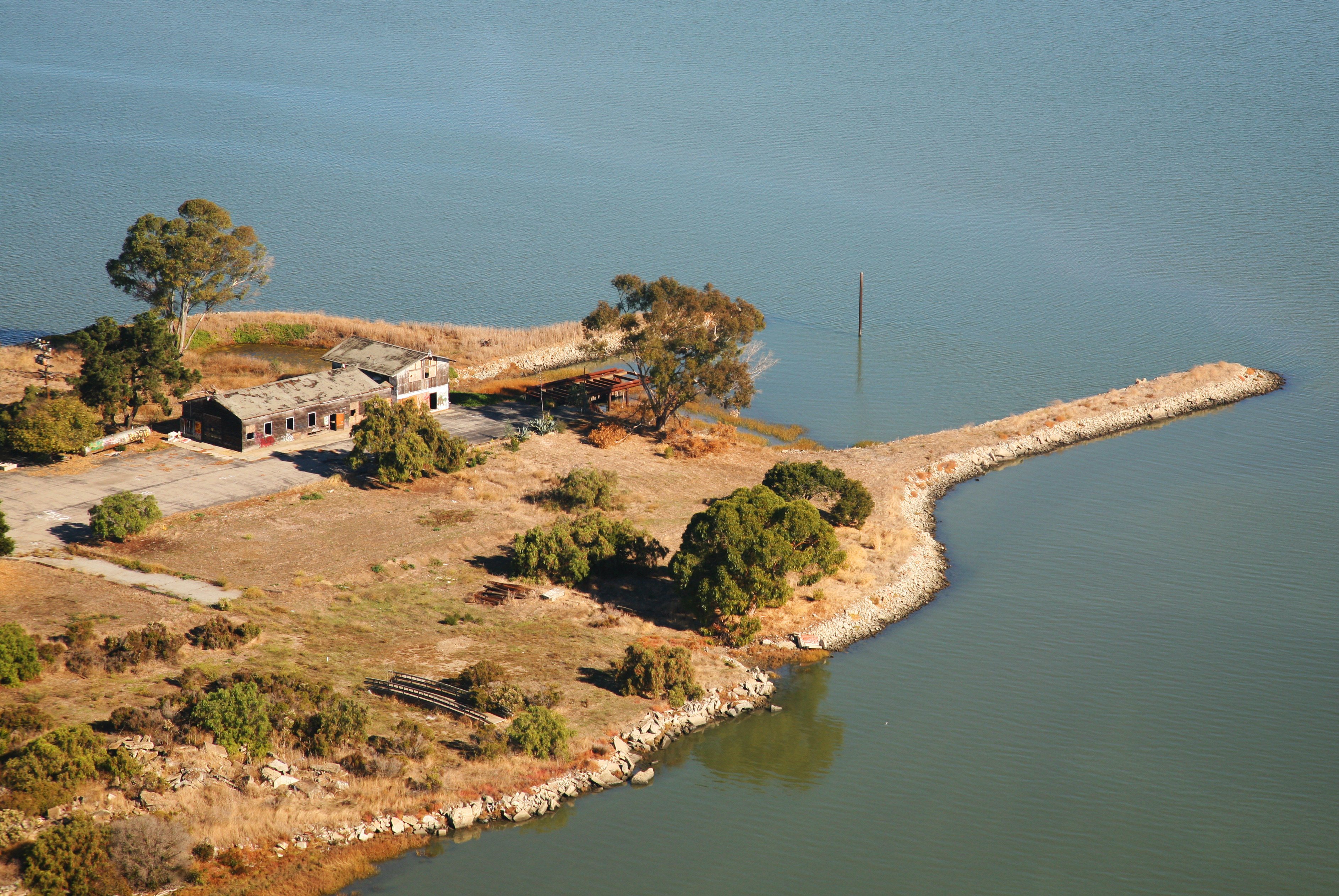 A historic spot on the bay between Menlo Park and East Palo Alto, with a checkered and maybe toxic past. Once it has been checked out and/or cleaned up, it is slated to become a park